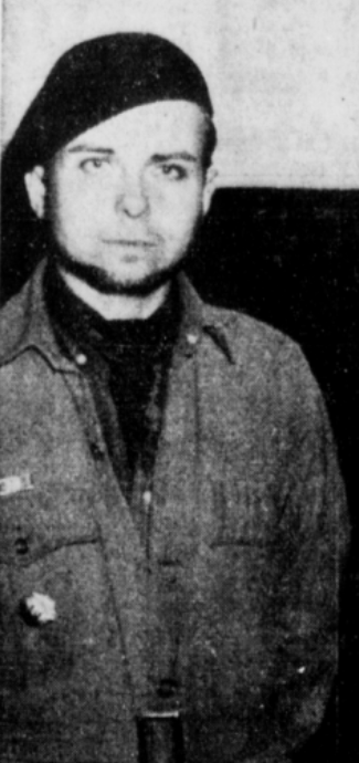 Photograph of UFO writer George Hunt Williamson.